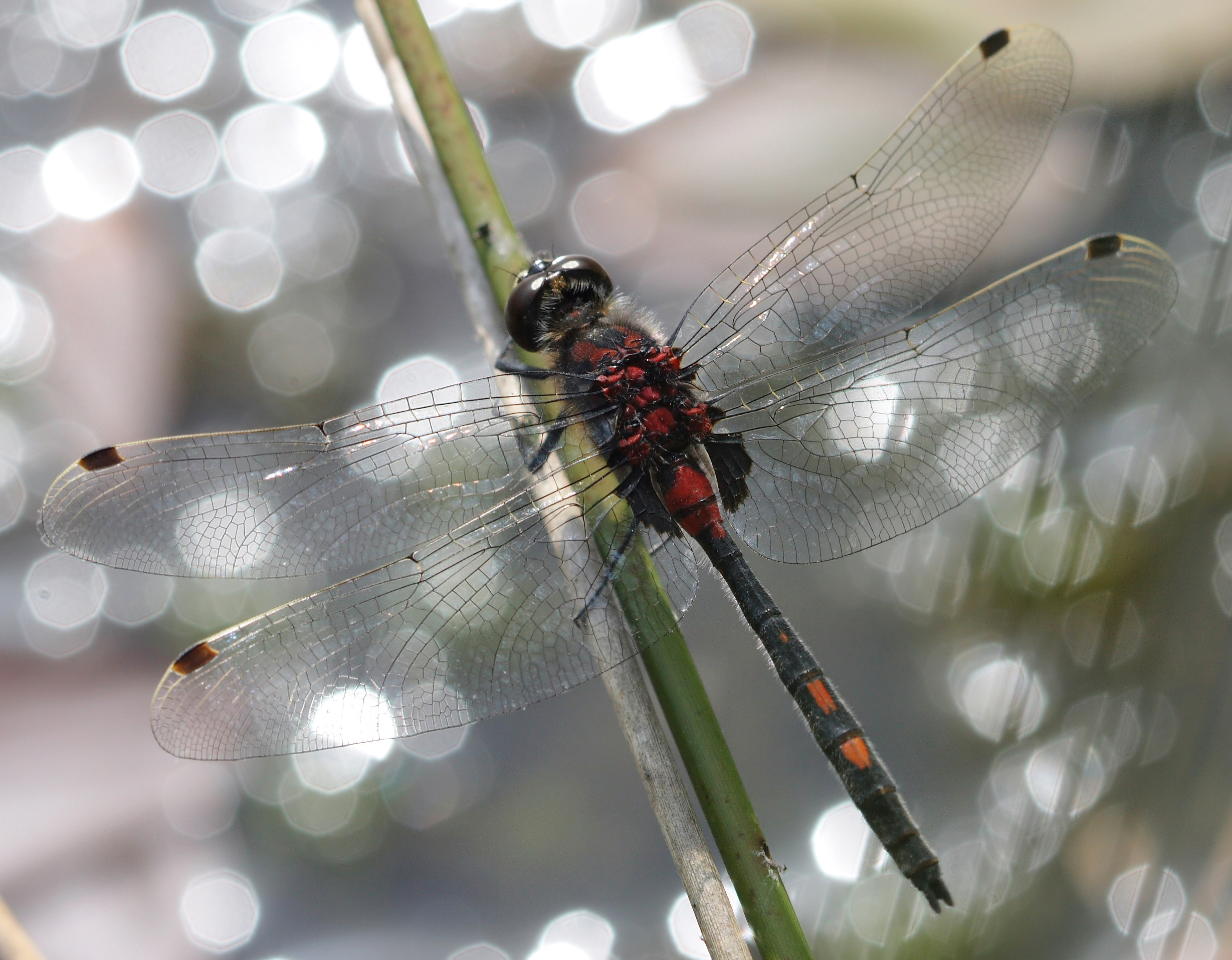 Male White-faced Darter (Leucorrhinia dubia) in the Ahlenmoor, a peatland in northern Lower Saxony, Germany.